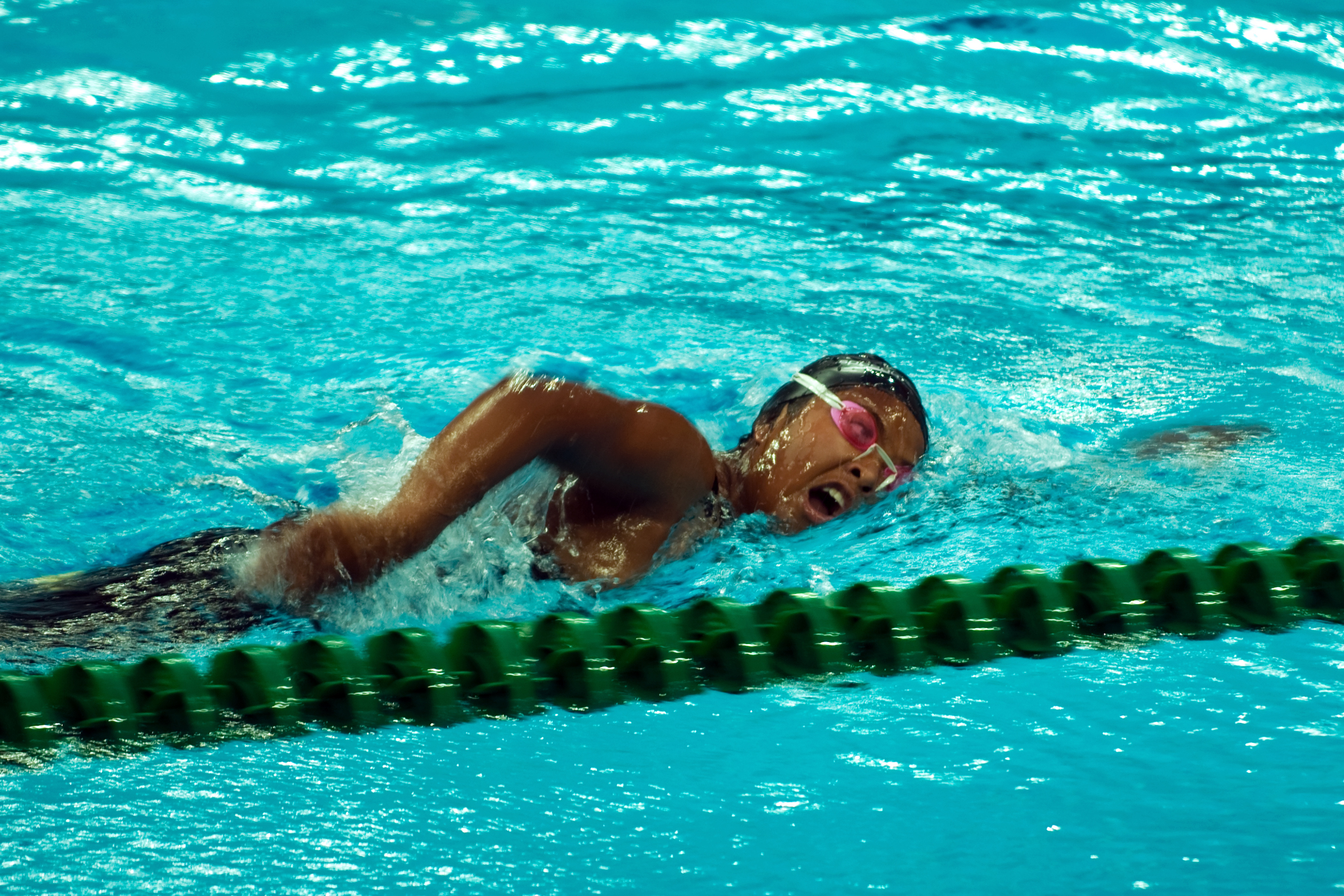 Crawl stroke in swimming